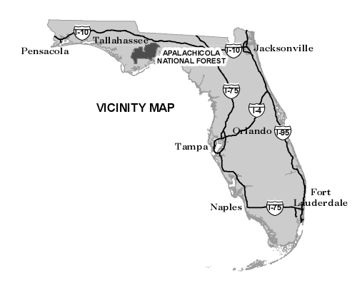 Location map of Apalachicola National Forest within Florida; Cropped by User:Gamweb